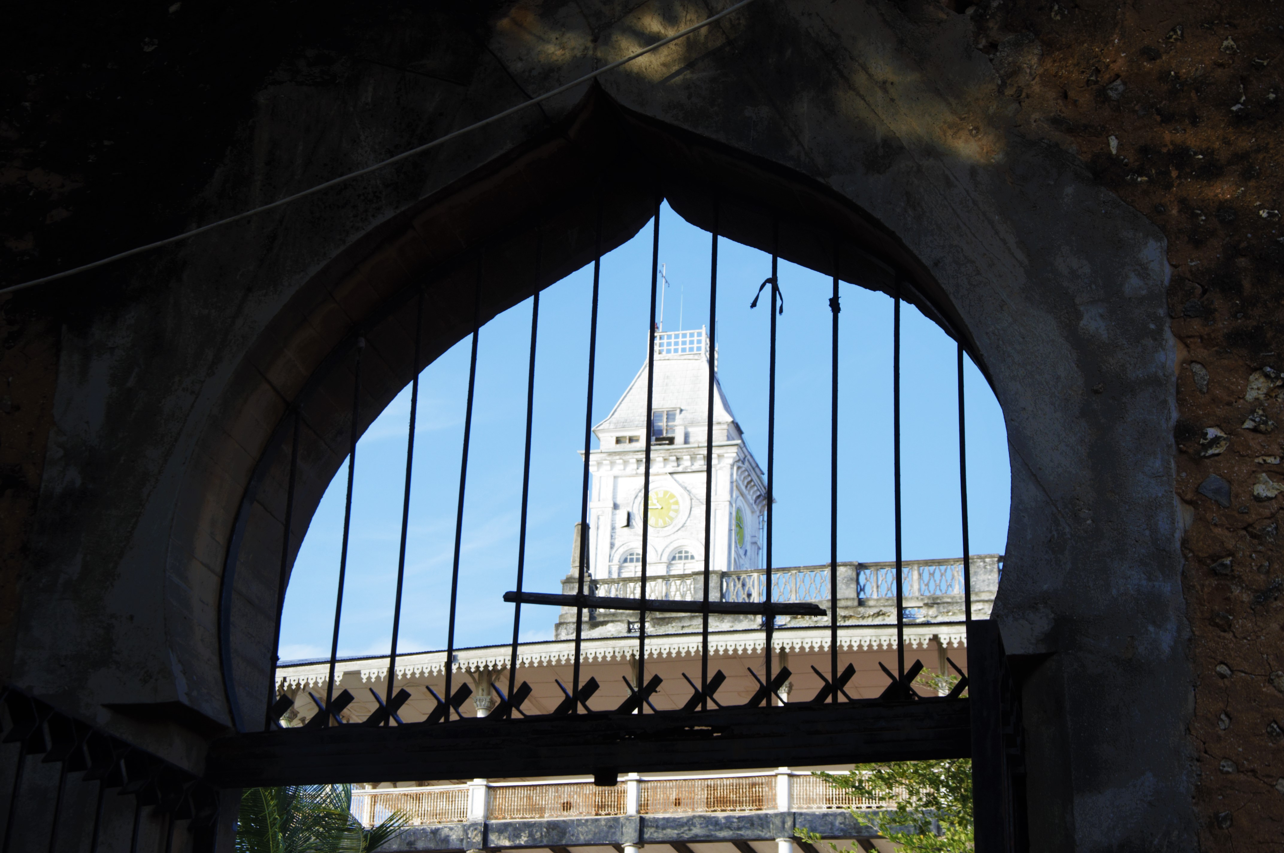 A view of the clock tower in House of Wonders through Islamic styled door in the Stone City of Zanzibar. This photo has been taken by Prof. Chen Hualin.